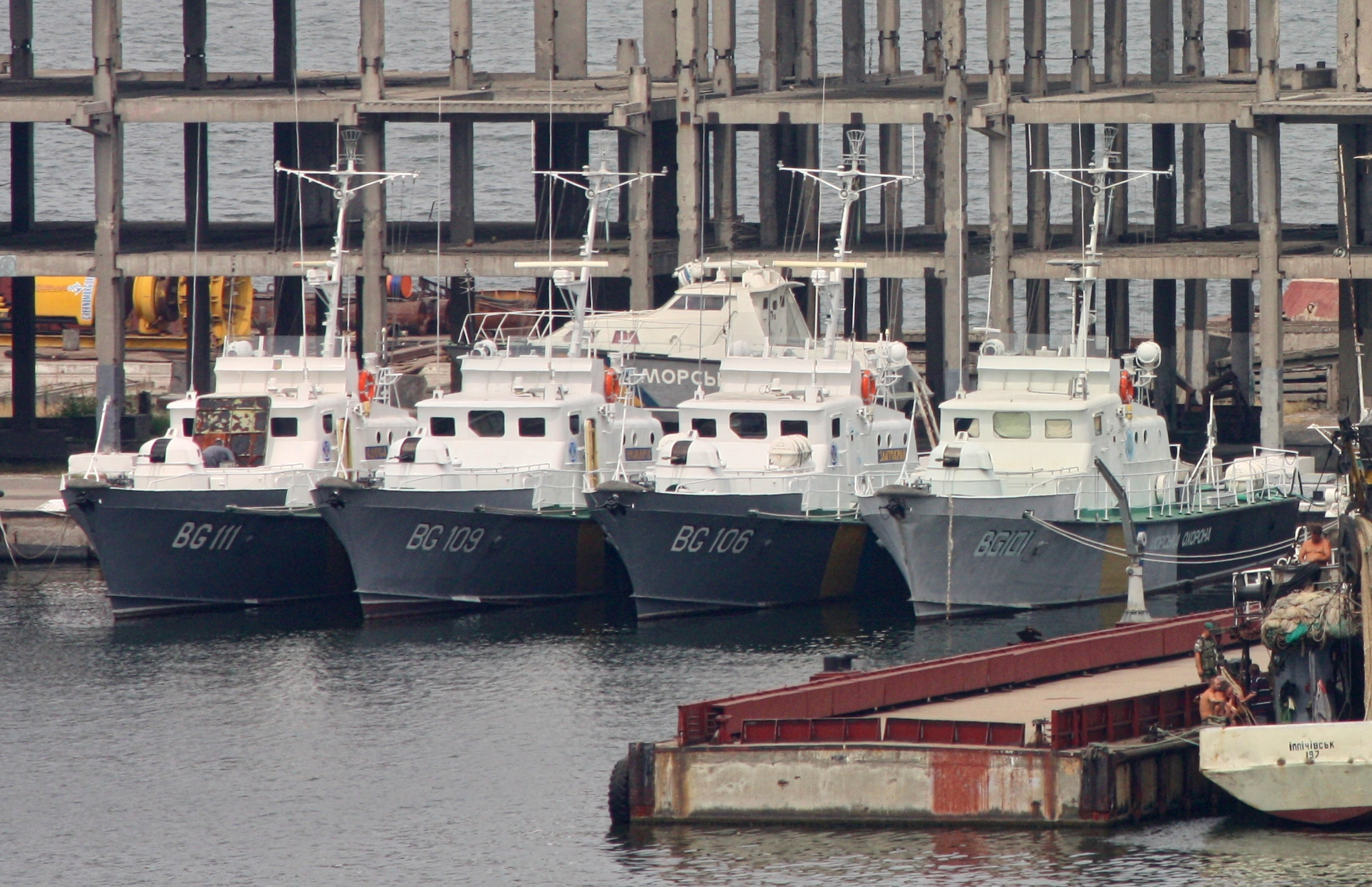 Four Ukrainian border guard patrol boats (with the numbers BG 101, BG 106, BG 109 and BG 111) in Odessa in the Ukrain. The russian class name of the boats is “Project 1400M”, the NATO code is “Zhuk”.